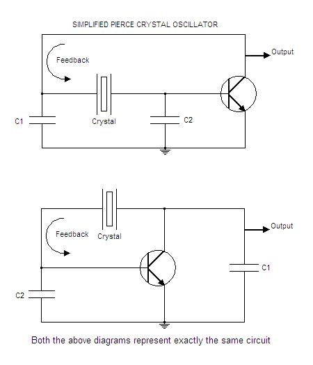 SIMPLIFIED CIRCUIT DIAGRAMS OF PIERCE CRYSTAL OSCILLATOR